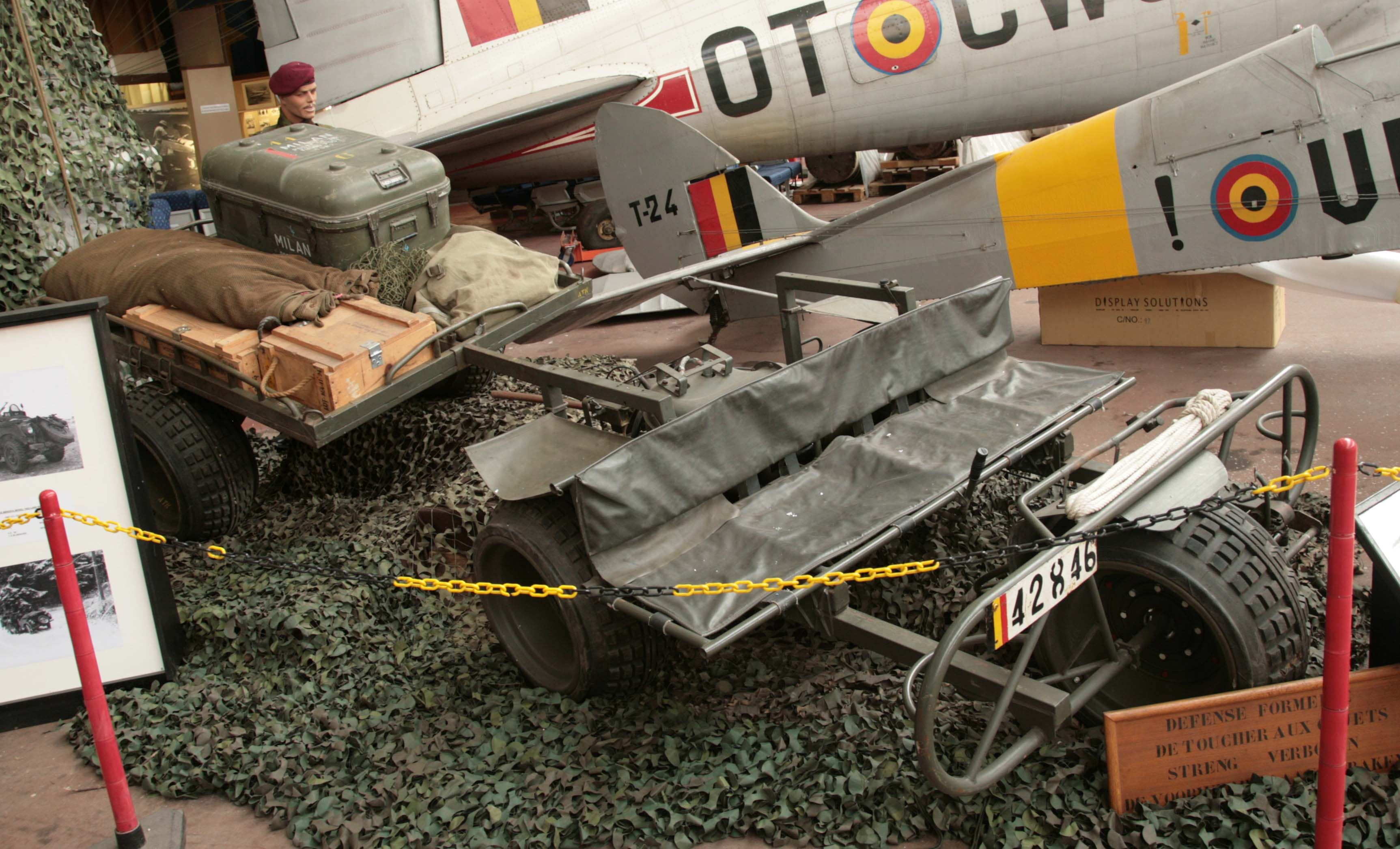 A Fabrique Nationale AS 24 trike at the Army Museum in Brussels.